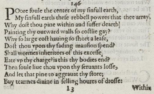 Sonnet 146 in the 1609 Quarto of Shakespeare's sonnets.